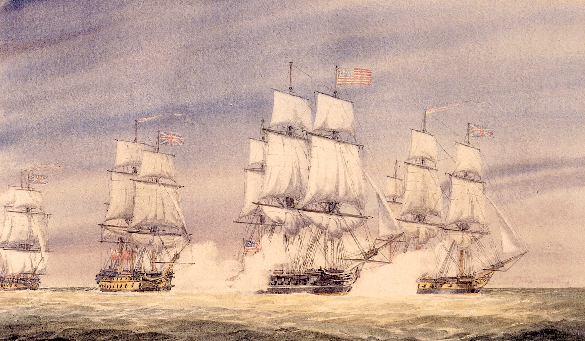 Capture of the American Frigate 'South Carolina' by the British ship 'Diomede' and frigates 'Quebec' and 'Astrea' - circa 1782